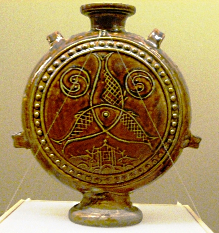 Brown-glazed jar with four lug handles and design of three fish. Yuan Dynasty. Excavated from Hancheng City. I took this photo at the Shaanxi History Museum in Xi'an in 2011.